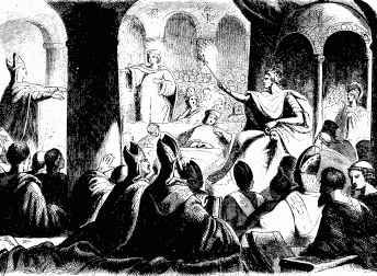 Council of Nicea